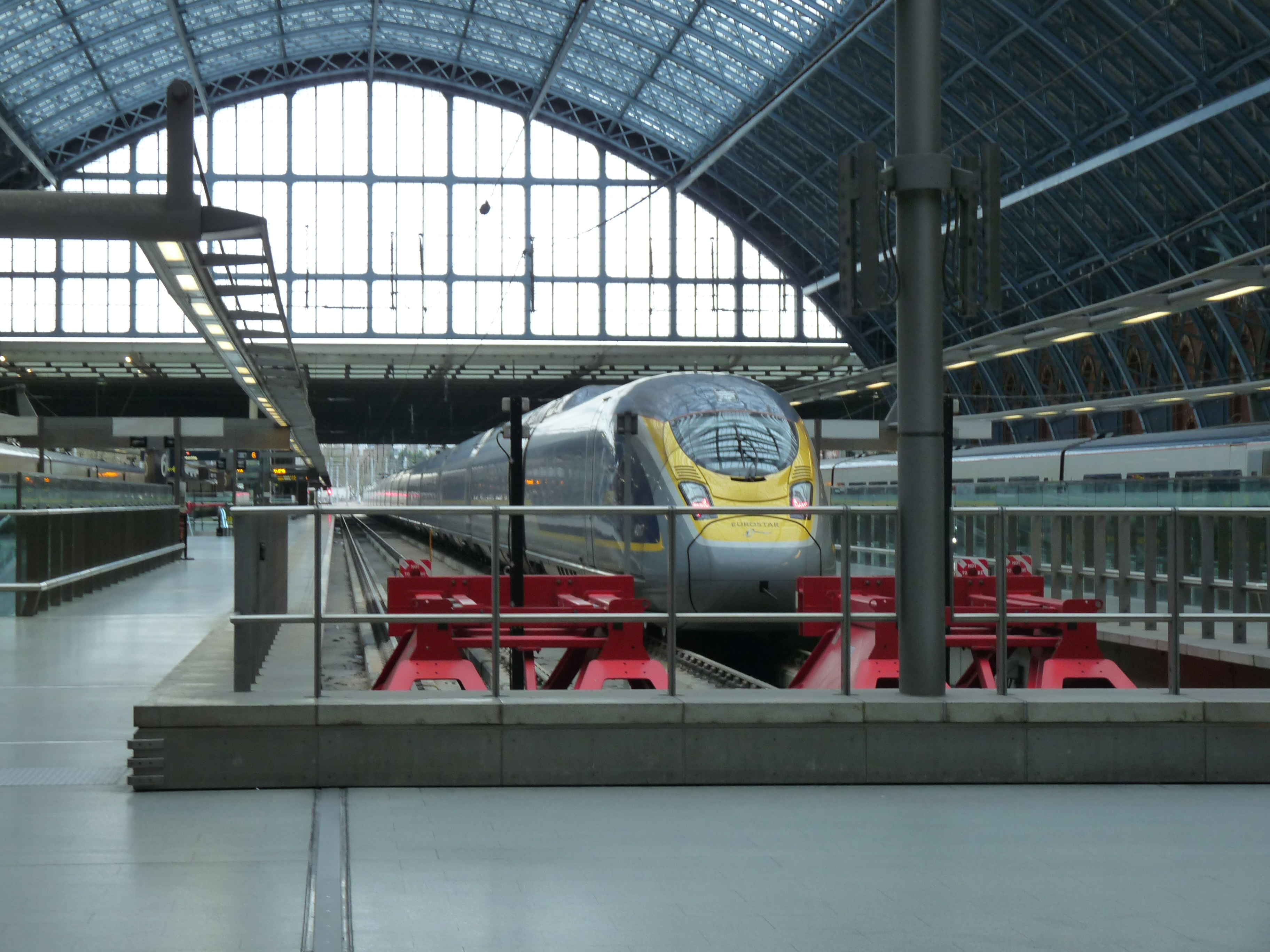 The new Eurostar model in St Pancras